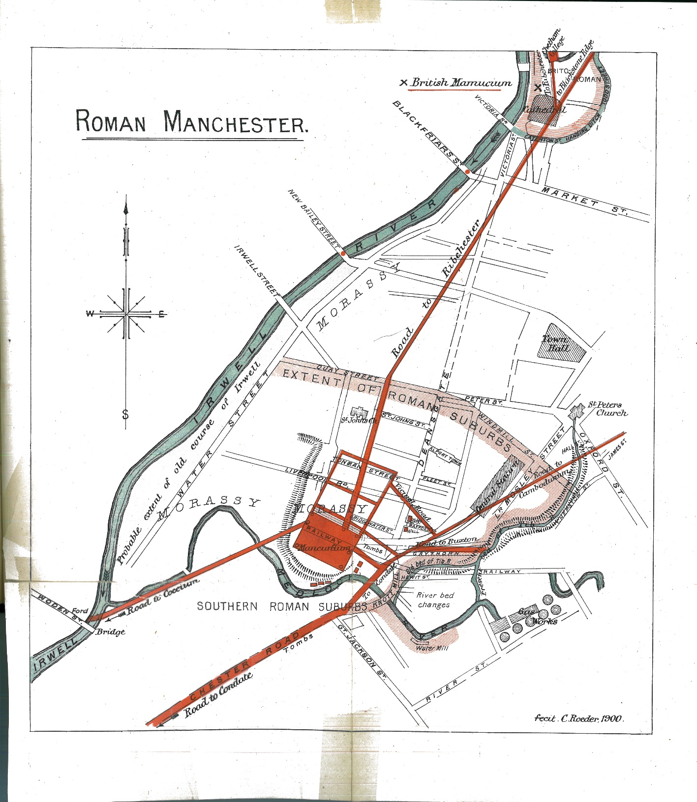 Illustration in wikisource:Roman Manchester (1900) by Charles Roeder.